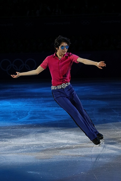 Gala exhibition at the 2018 Winter Olympics